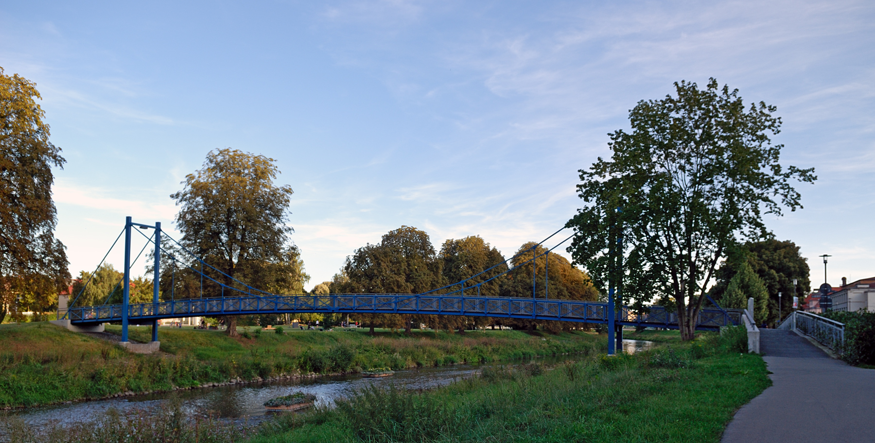 This image shows the Textima bridge ("Textimasteg") in Gera, Germany.